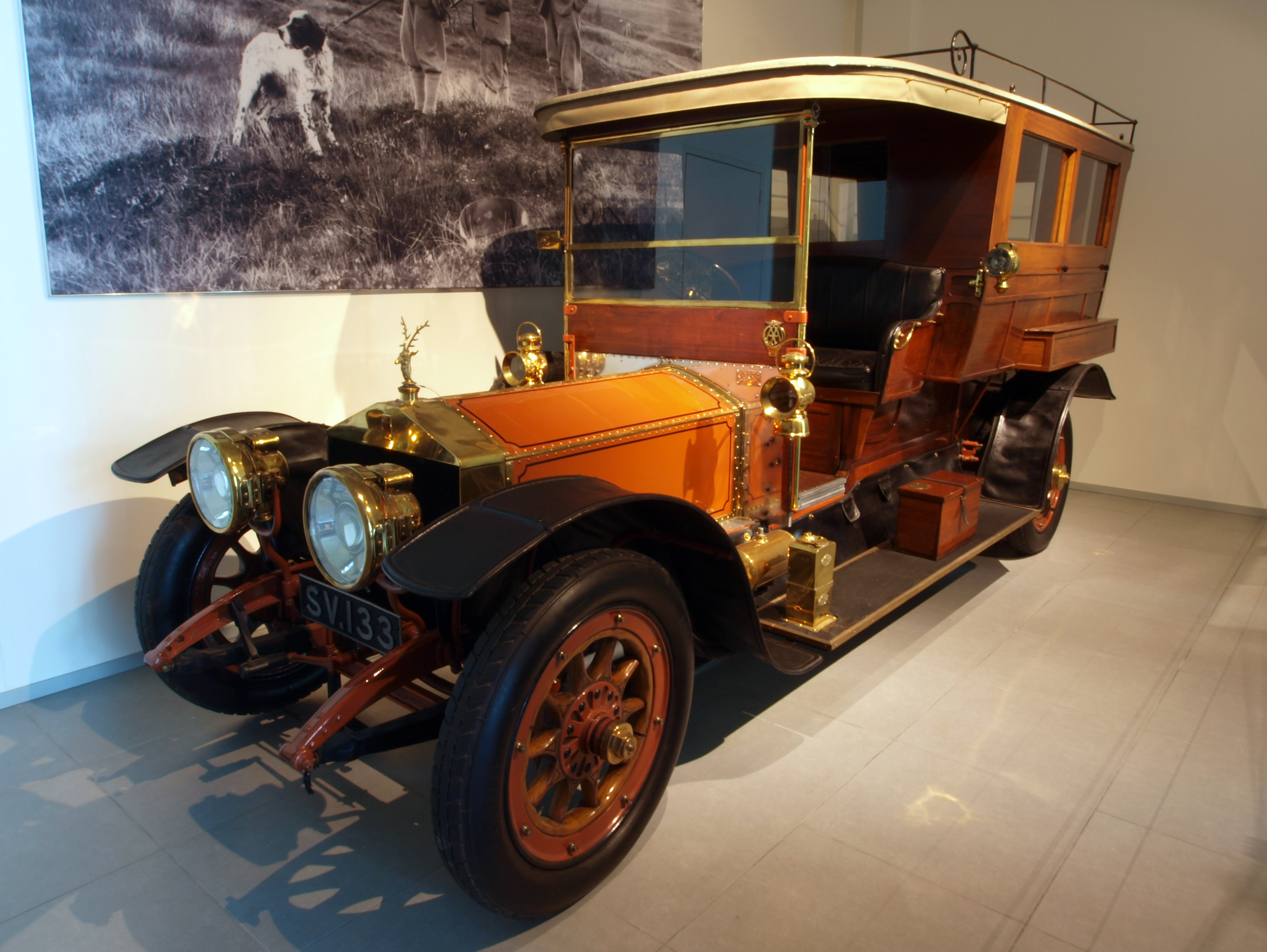 1910 Rolls-Royce 40/50-HP Silver Ghost Croall & Croall Shooting Brake. Photographed at the Louwman museum, The Netherlands. Built for the Duke of Buccleuch and Duke of Queensberry (one man two dukedoms)